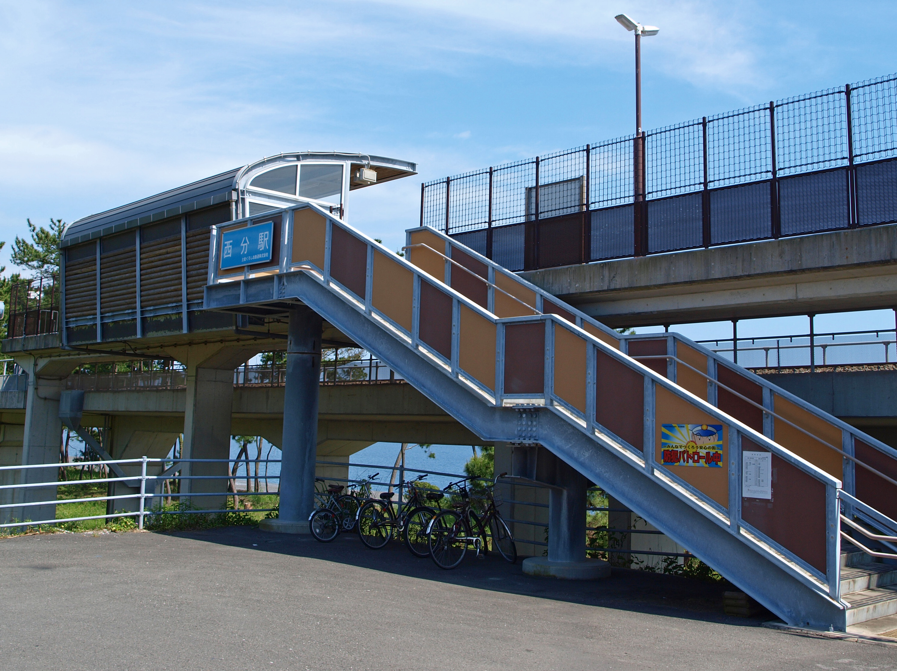 Nishibun Station, Gomen-Nahari Line（Asa Line), Tosa Kuroshio Railway, Japan